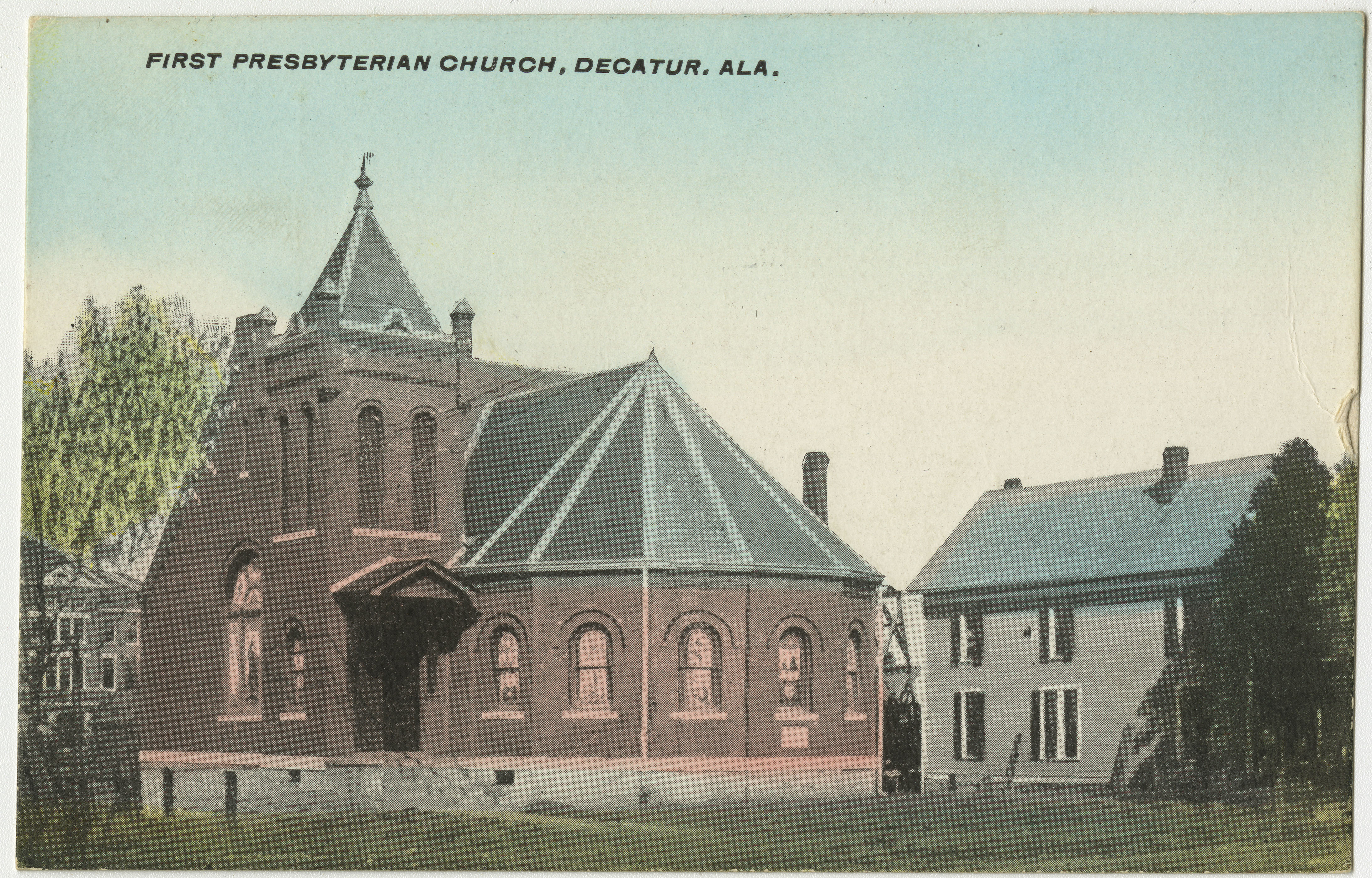 First Presbyterian Church in Decatur, Alabama from a pre-1923 postcard From RG 428, Postcard Collection, Presbyterian Historical Society, Philadelphia, Pennsylvania.